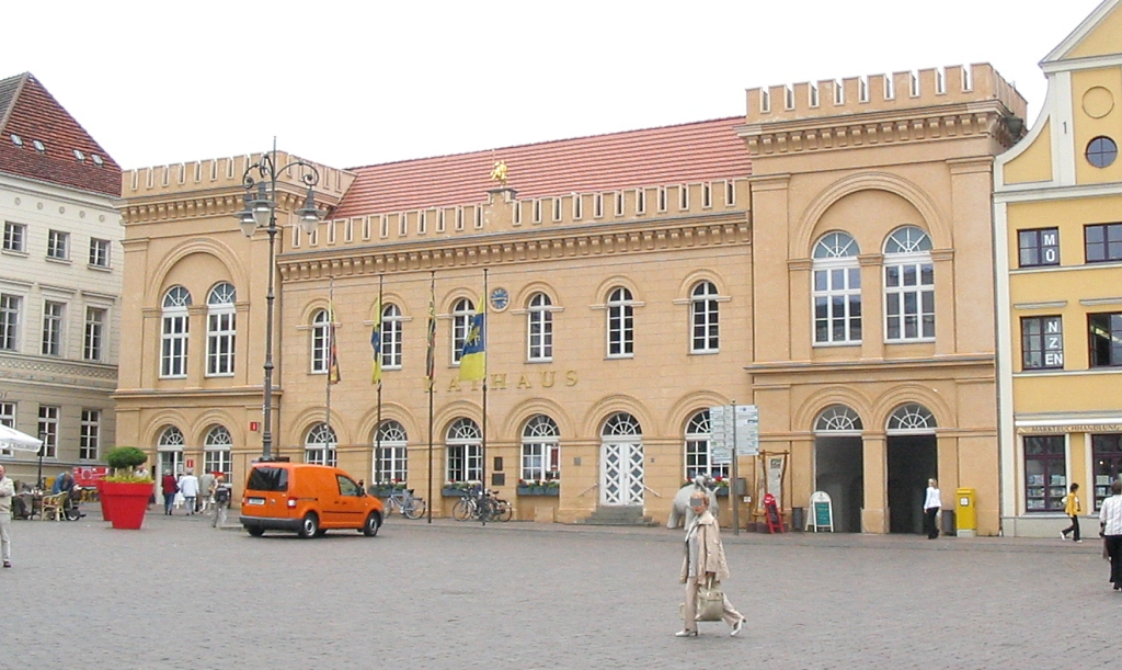 Town hall in Schwerin, Germany